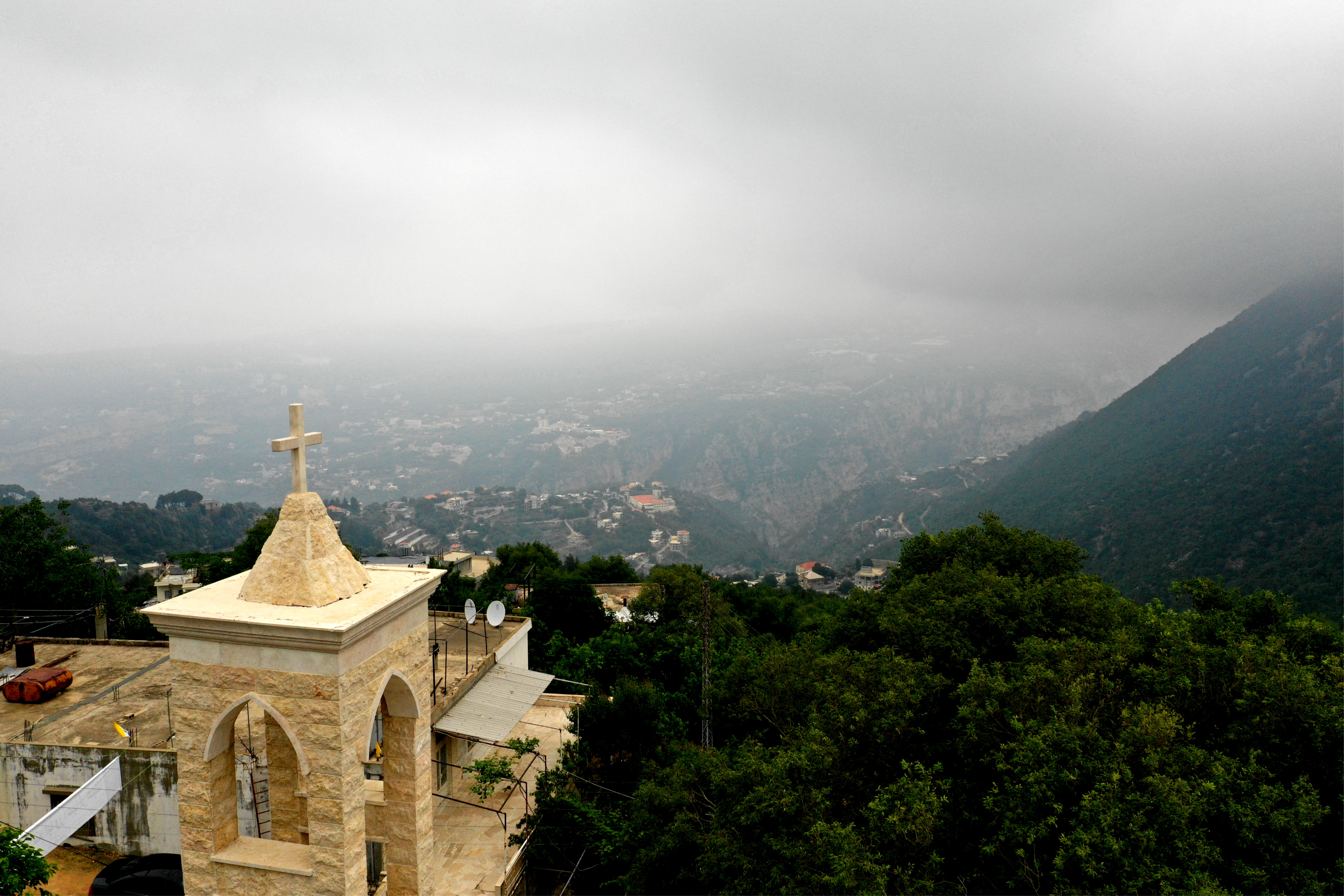 HADCHAT